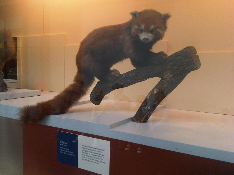 Taxidermied Red Panda (Ailurus fulgens) at the Natural History Museum in London, England.